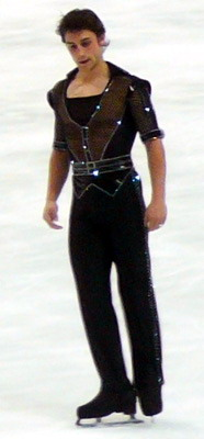 Brian Joubert before the long program. Cup of Russia, held in Khodynka Arena in 2008.